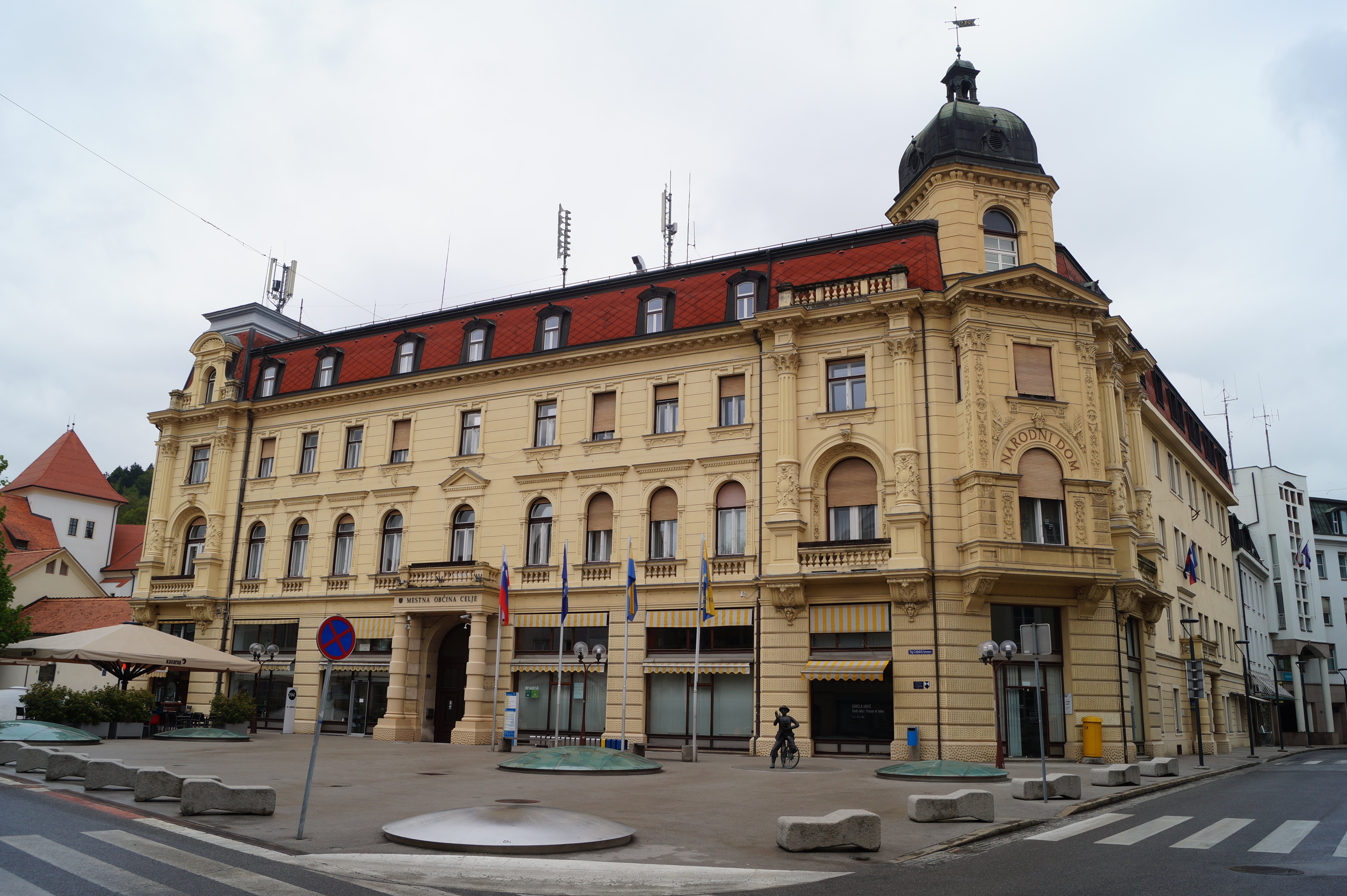 Historic buildings in Celje, Slovenia